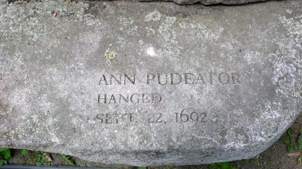 Ann Pudeator's gravestone marker